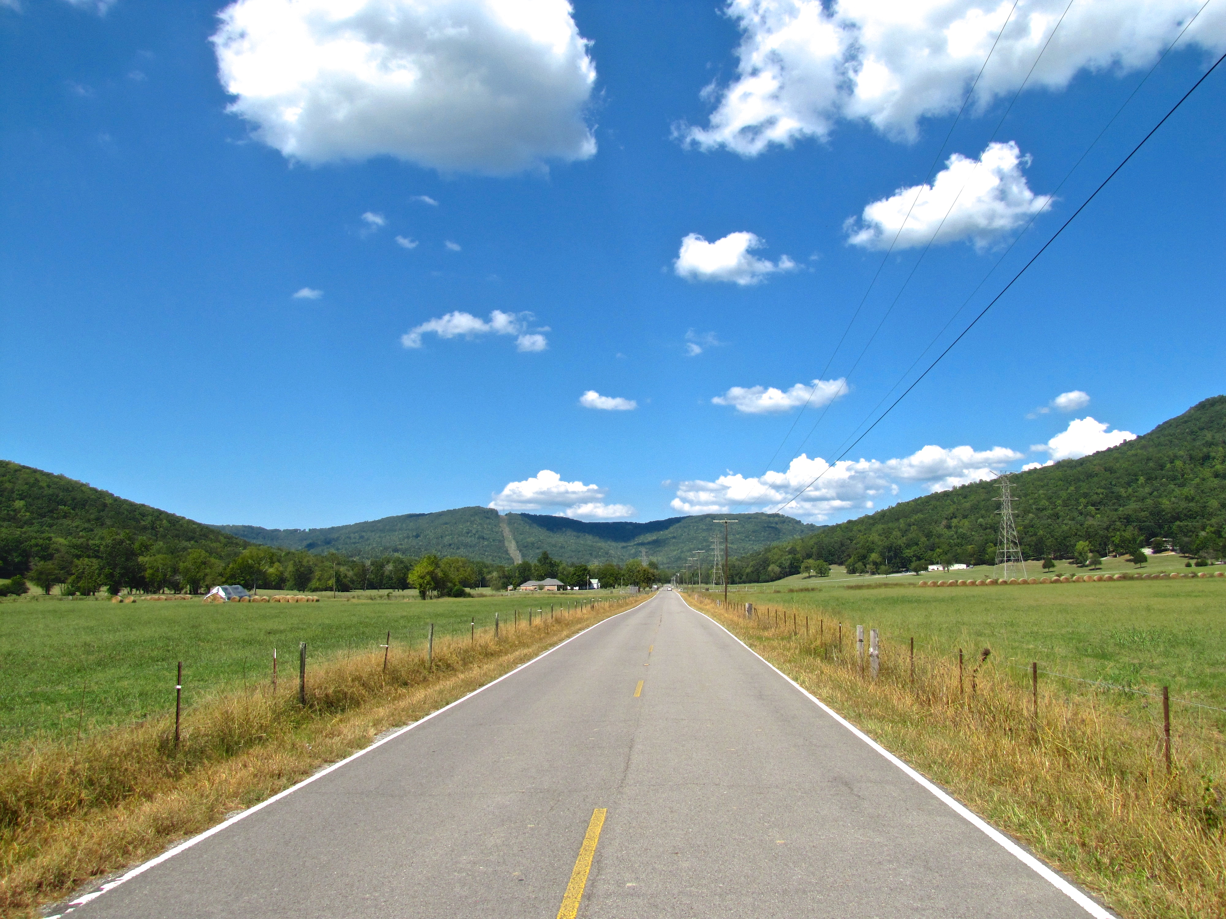 Looking north along County Highway 98 in northern Jackson County, Alabama, United States. The Cumberland Plateau rises in the distance.